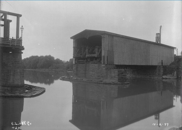 Photo looking southwest at the Newkirk Viaduct (also known as the Grays Ferry Bridge) across the Schuylkill River in southern Philadelphia, Pennsylvania. Built in 1838 and rebuilt and improved several times before being demolished around 1902, the bridge had an unusual draw span that retracted into another span.